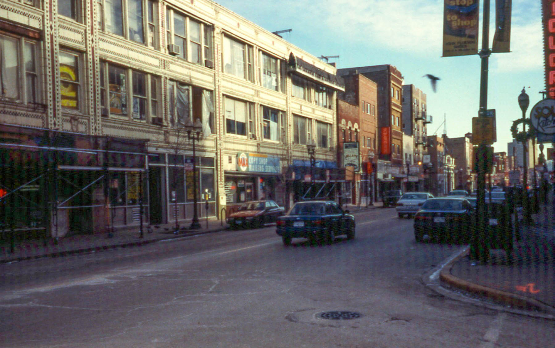 20011225 06 Milwaukee Ave. @ Damen Ave. Chicago